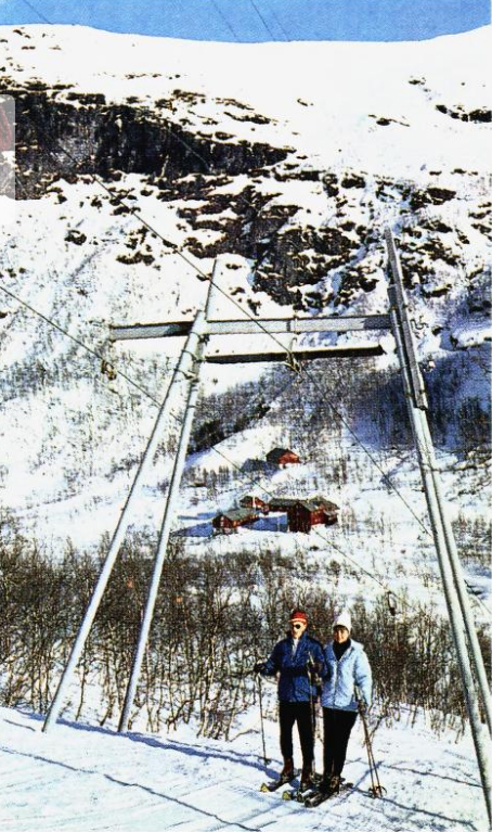 Mjølfjell viewed from above. Skiing